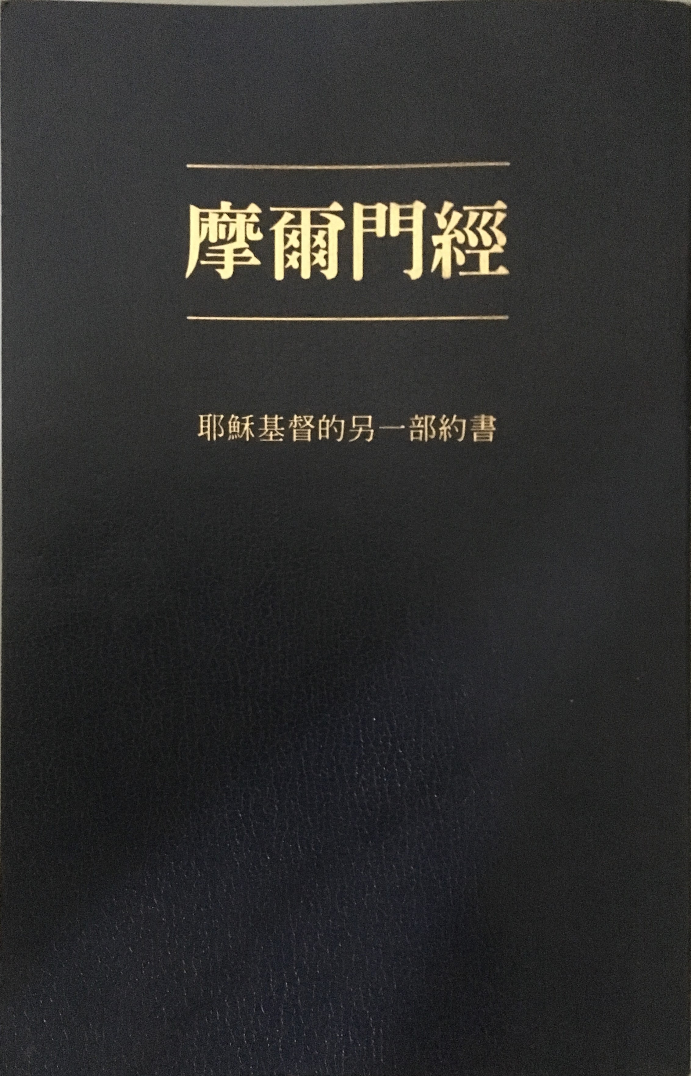 Book of Mormon, Another Testament of Jesus Christ. The book for Traditional Chinese version.